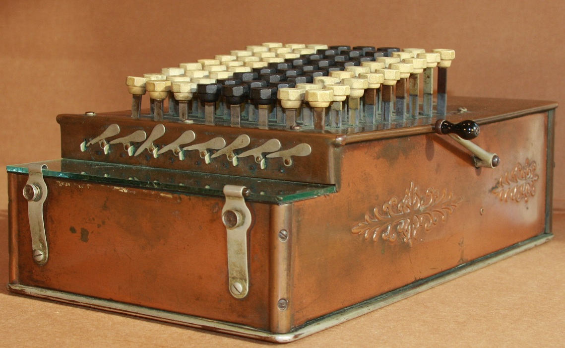 Comptometer Model A